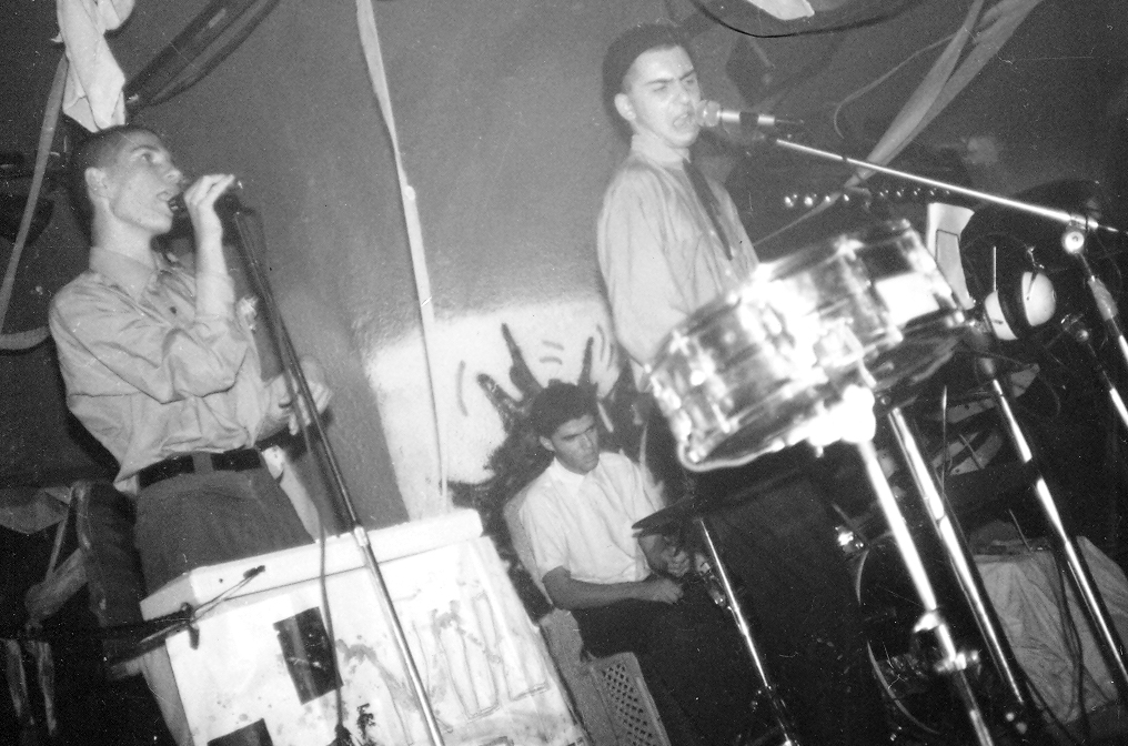 The Top Hat Carriers performing at Amadeus club in Jerusalem, 1986; L-R: Yishai Adar, Alon Cohen, Ohad Fishof